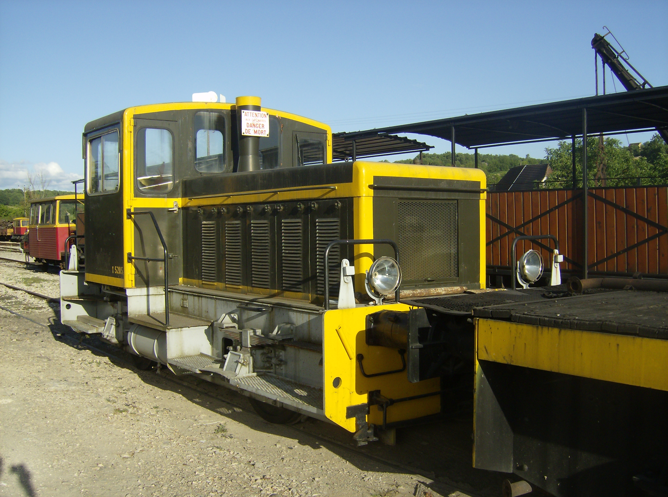 Y5205 at the CFTHQ in Martel, France.